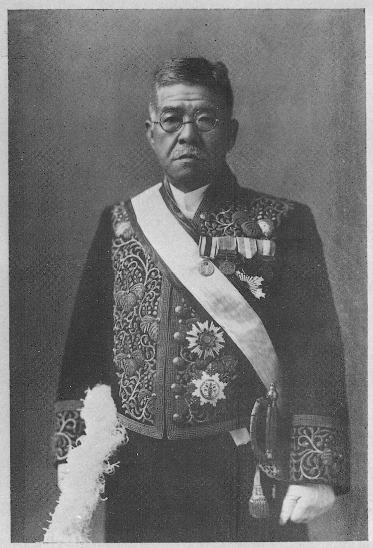 Portrait of Suzuki Kisaburo (鈴木喜三郎, 1867 – 1940)